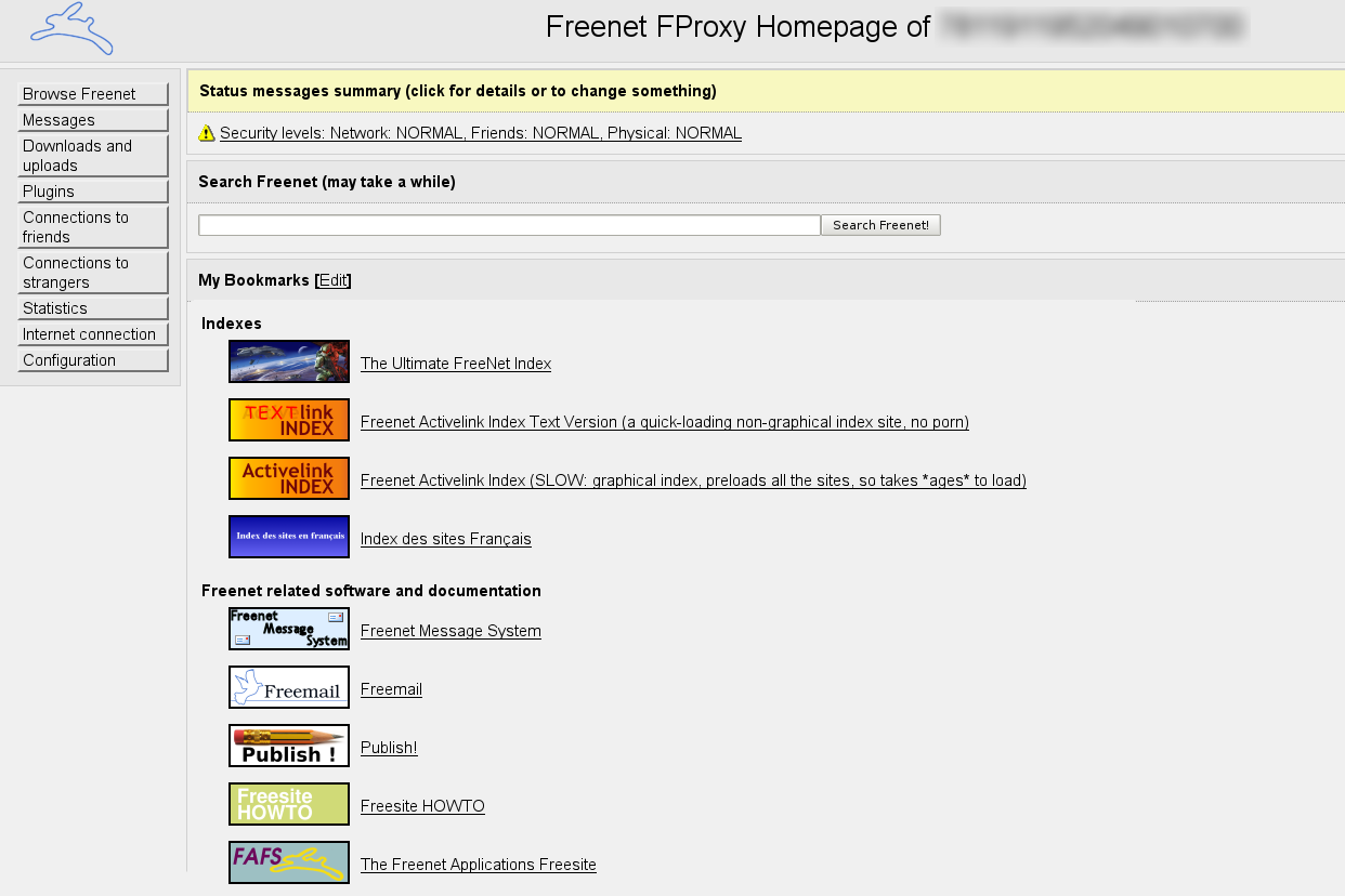 Screenshot of the index page of Freenet 0.7